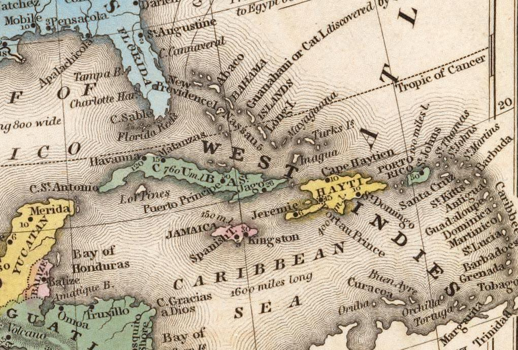 This view of of the West Indies was extracted from a plate in an Samuel Augustus Mitchell's School and Family Geography (1839) published in Philadelphia, Pennsylvania. David Rumsey and Edith M. Punt. Cartographica Extraordinaire: The Historical Map Transformed. ESRI Press (March 2004).